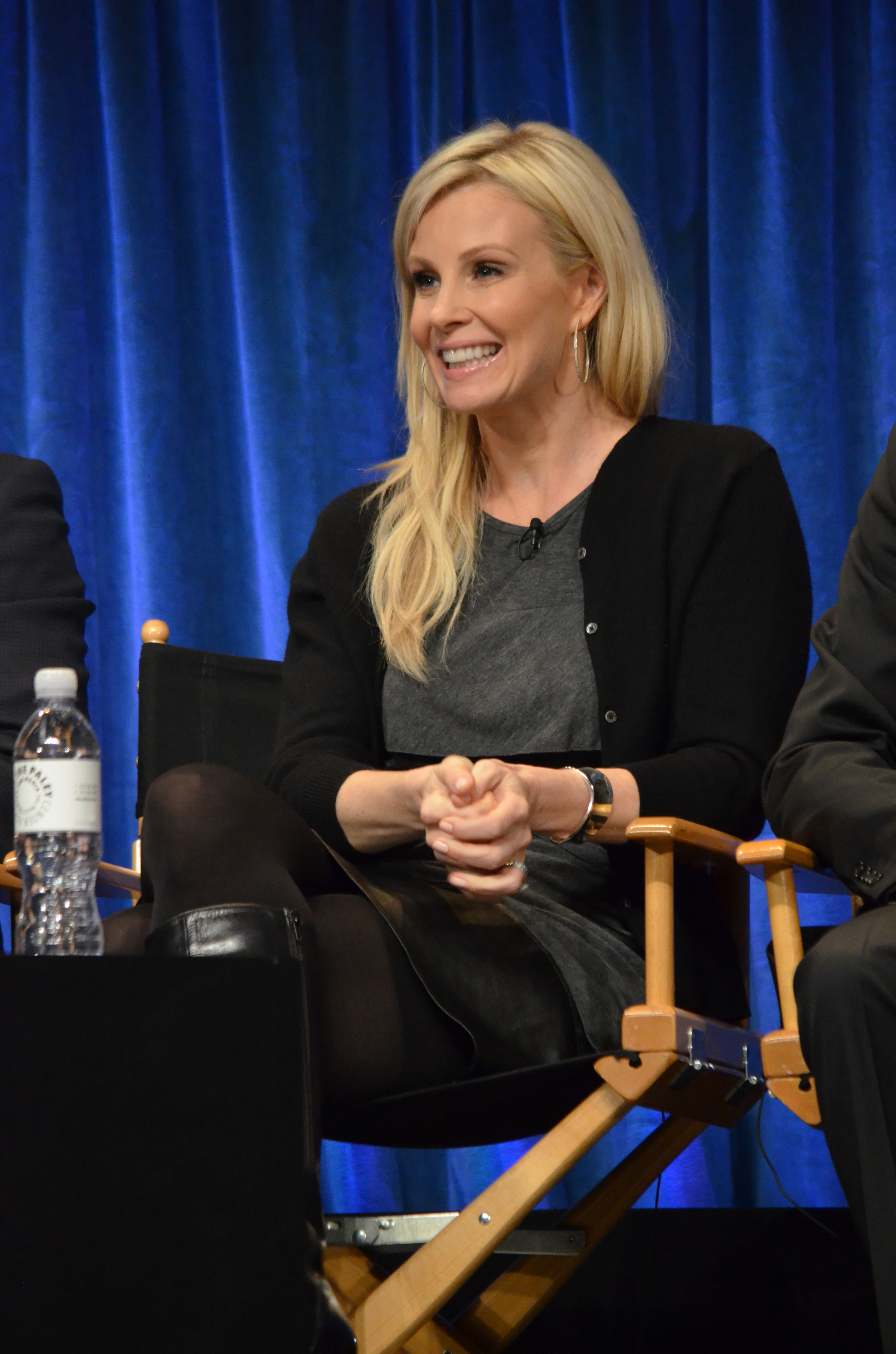 Monica Potter at Paleyfest 2013